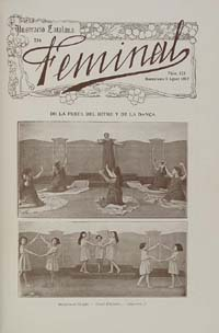 Portada de la revista